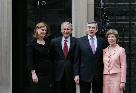 US-President George W. Bush and Laura Bush are met by British Prime Minister Gordon Brown and his wife, Sarah, on their arrival Sunday, June 15, 2008 at 10 Downing Street in London.